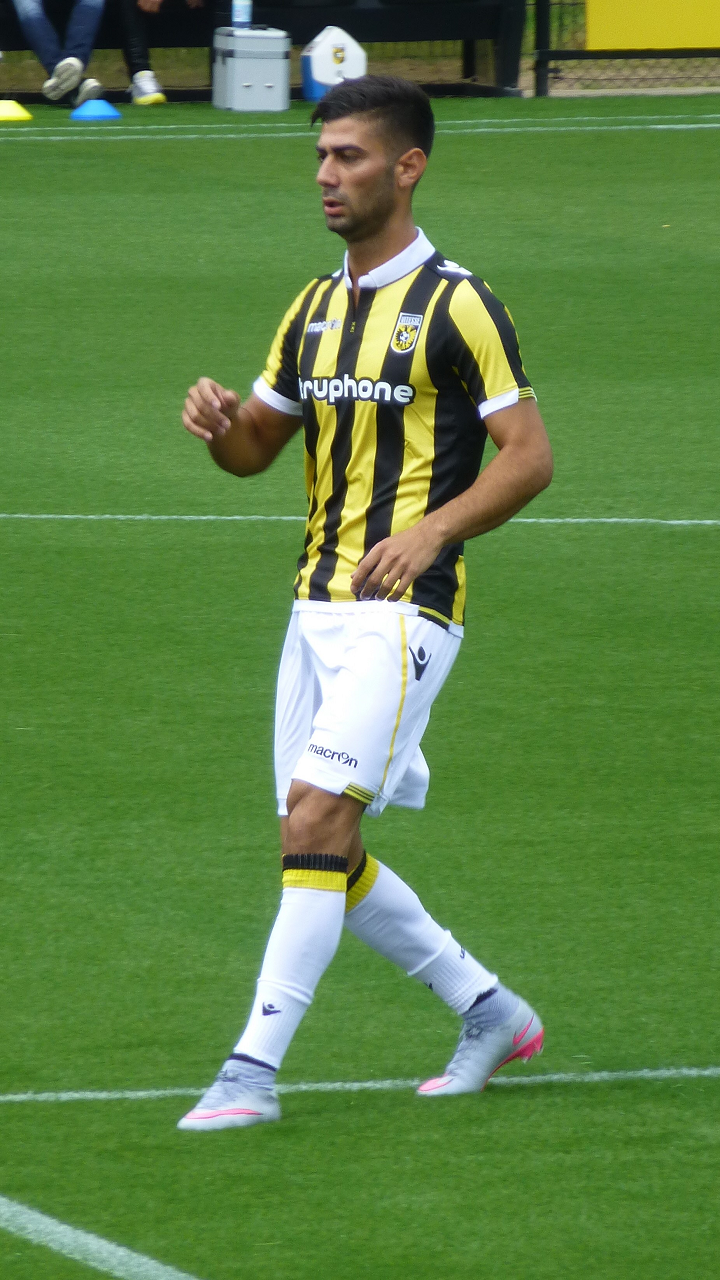 Mohammed Osman at the Papendal training grounds of Vitesse on 28 June 2015